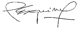 Signature of the Nobel Prize Adolfo Pérez Esquivel